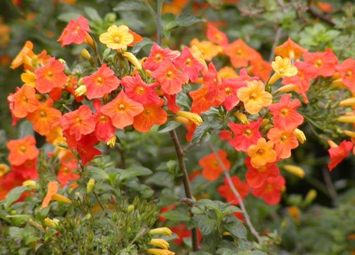 Photo of Streptosolen (marmalade bush) at the San Francisco Botanical Garden